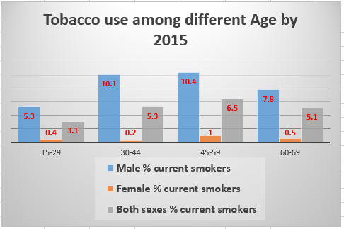 replace by Tobacco use